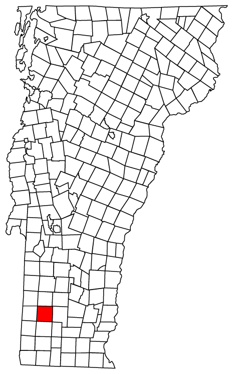 Description: Map of Vermont towns with Sunderland highlighted Source: Map created by Jared C. Benedict on 26 March 2004. Copyright: © Jared C. Benedict.